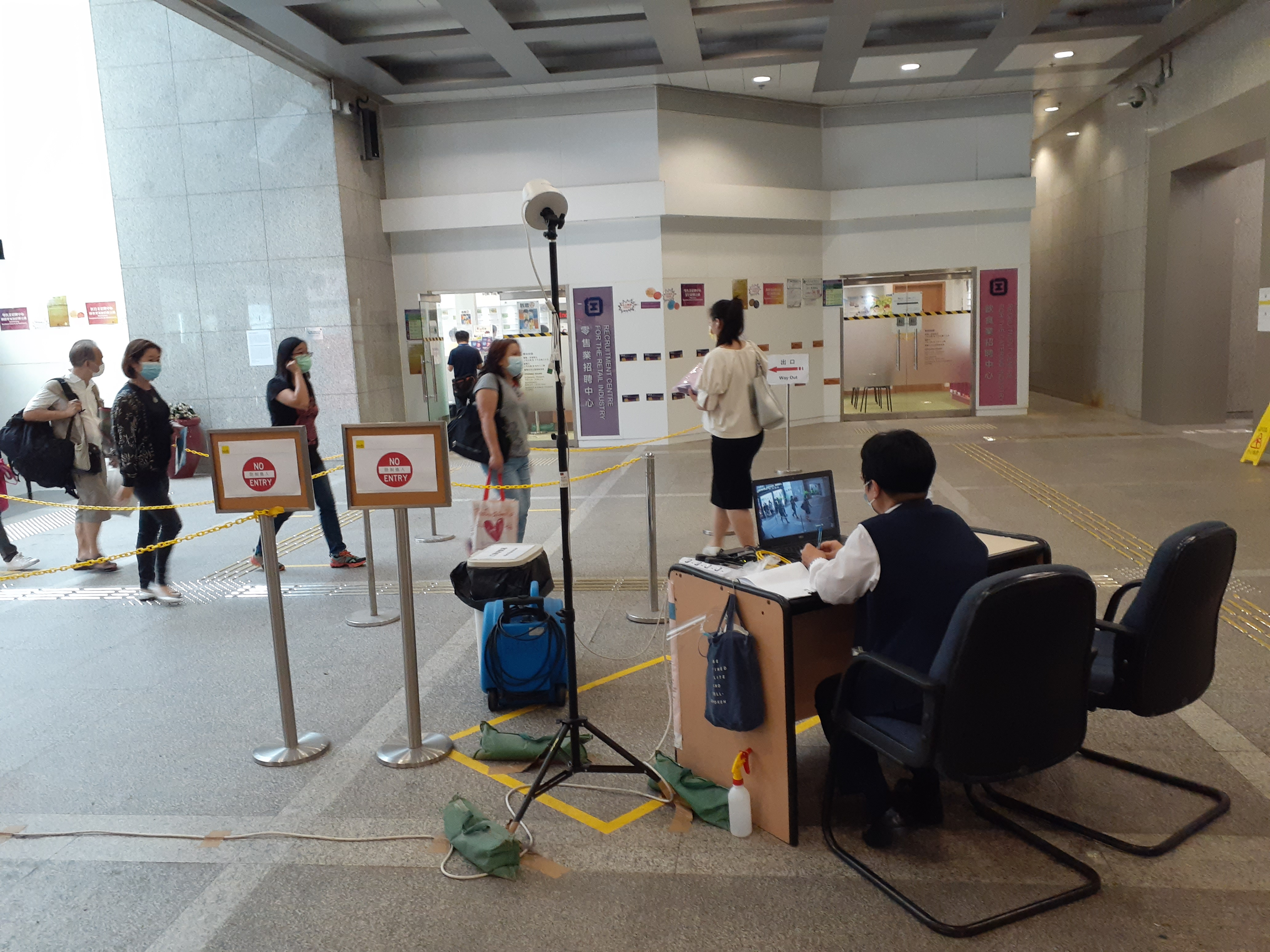 HK WCN 灣仔北 Wan Chai North 稅務大樓 Revenue Tower in May 2020